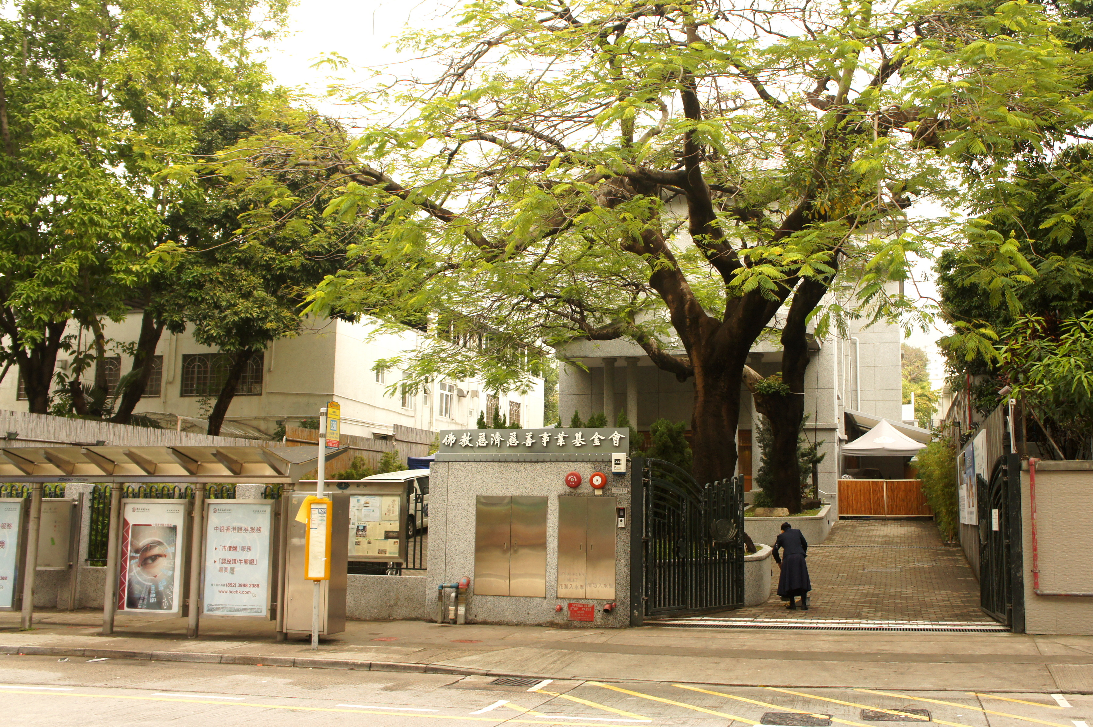 Buddhist Compassion Relief Tzu-Chi Foundation located at 12 Suffolk Road, Kowloon Tong, Kowloon, Hong Kong.